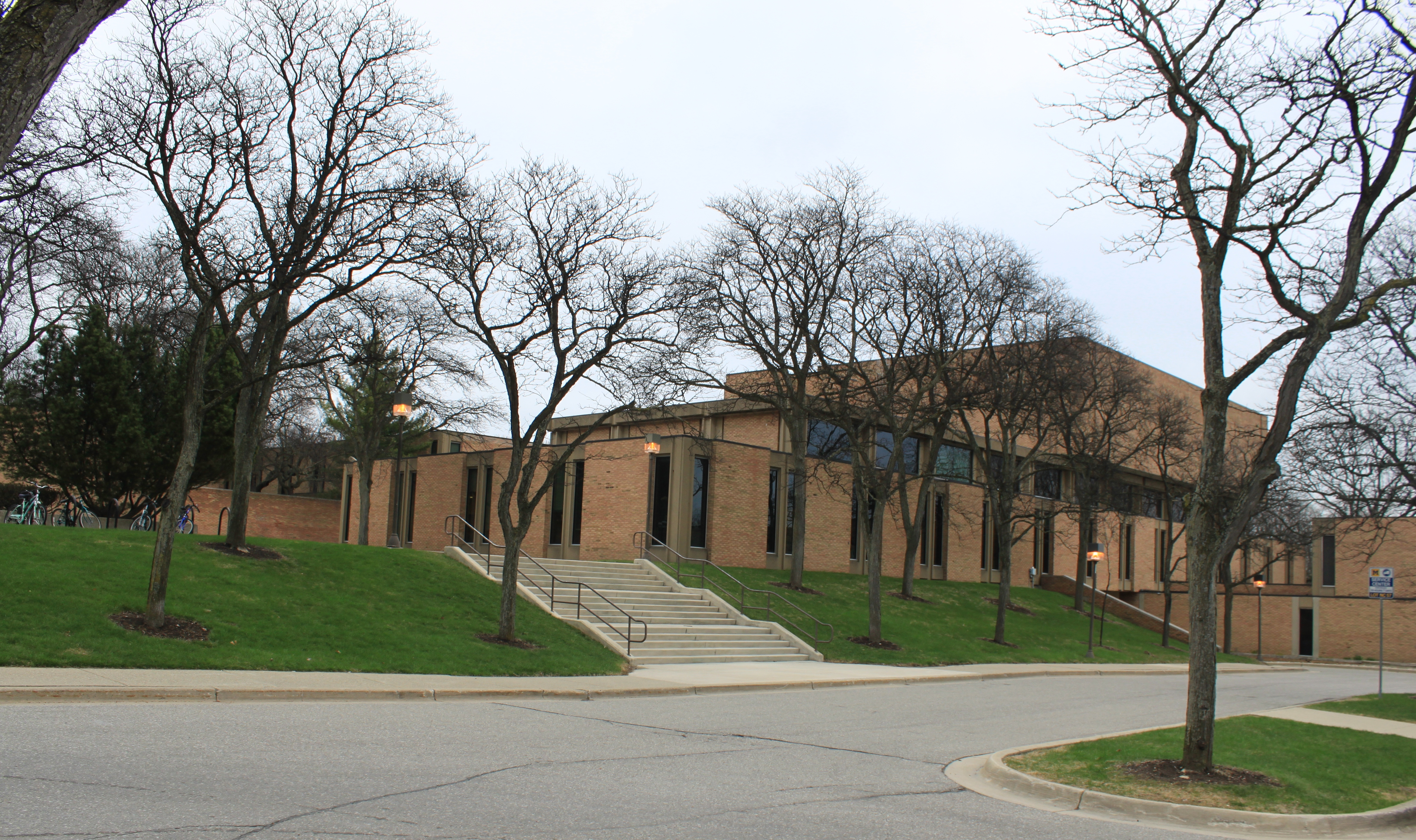 Earl V. Moore building, headquarters of the University of Michigan School of Music, Theatre and Dance, 100 Baits Avenue, Ann Arbor, Michigan